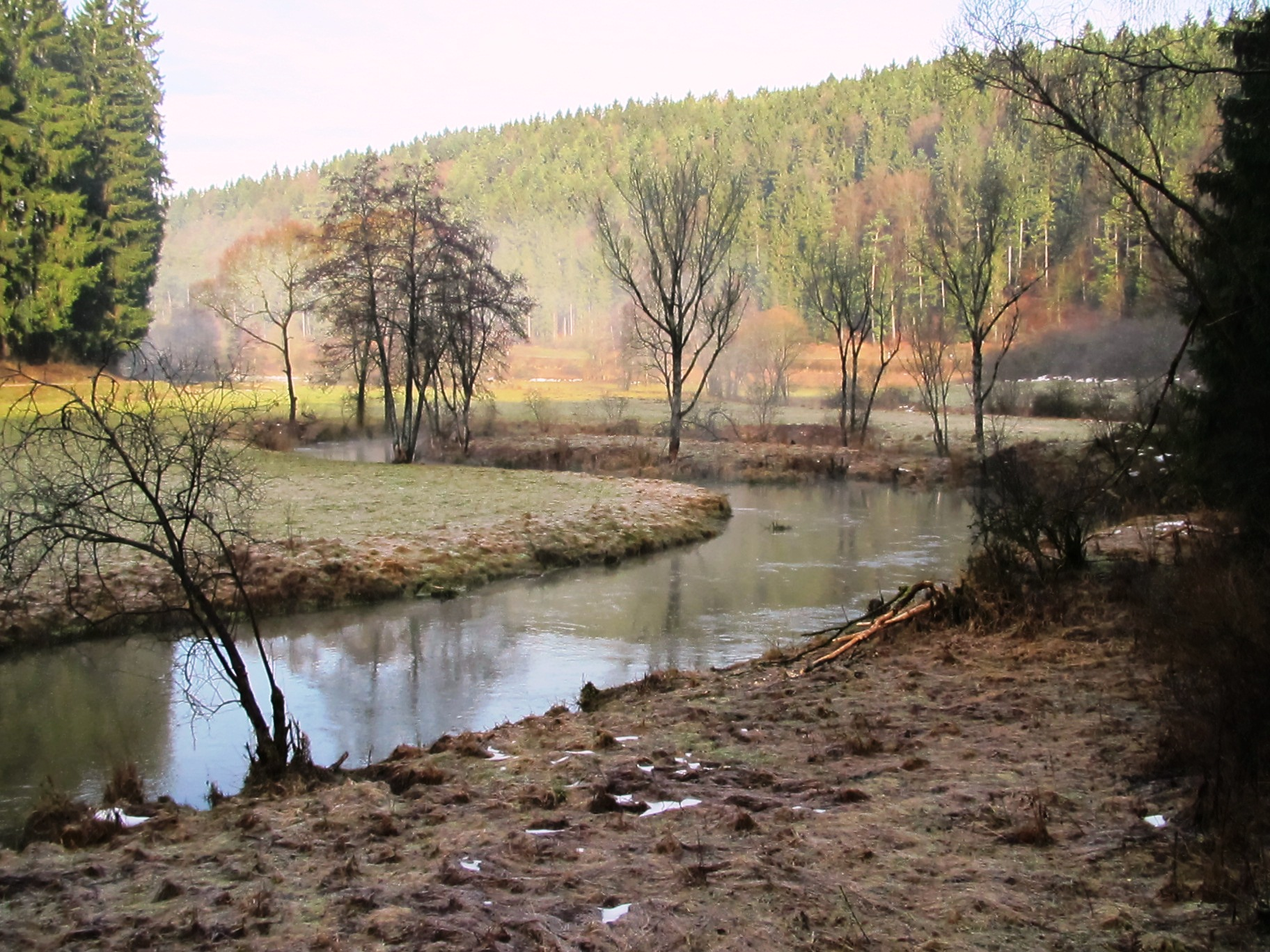 The valley of the Lauterach River between Mühlhausen and Flügelsbuch.